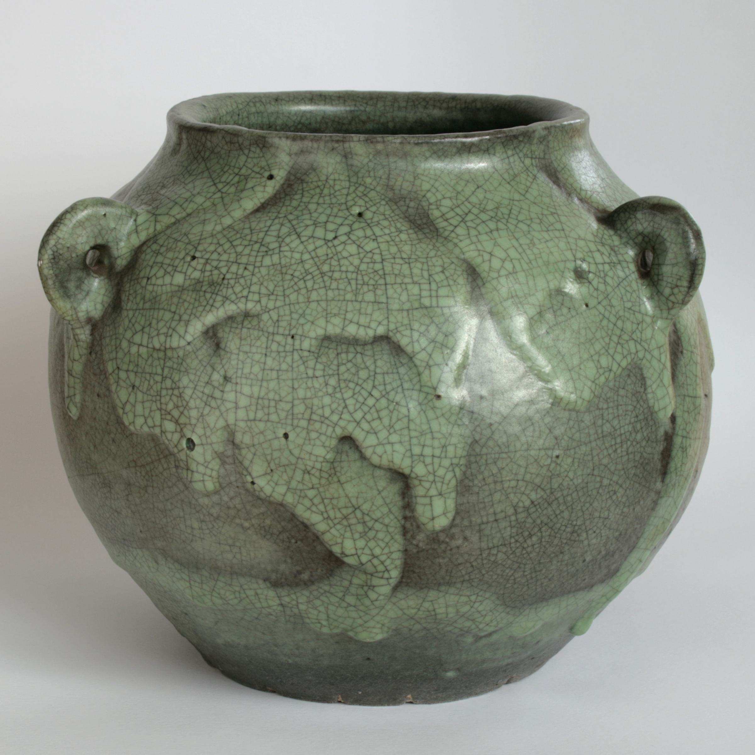 Ceramic vessel, iron reduction glaze (celadon). Height approx. 22 cm, diameter approx. 26 cm.